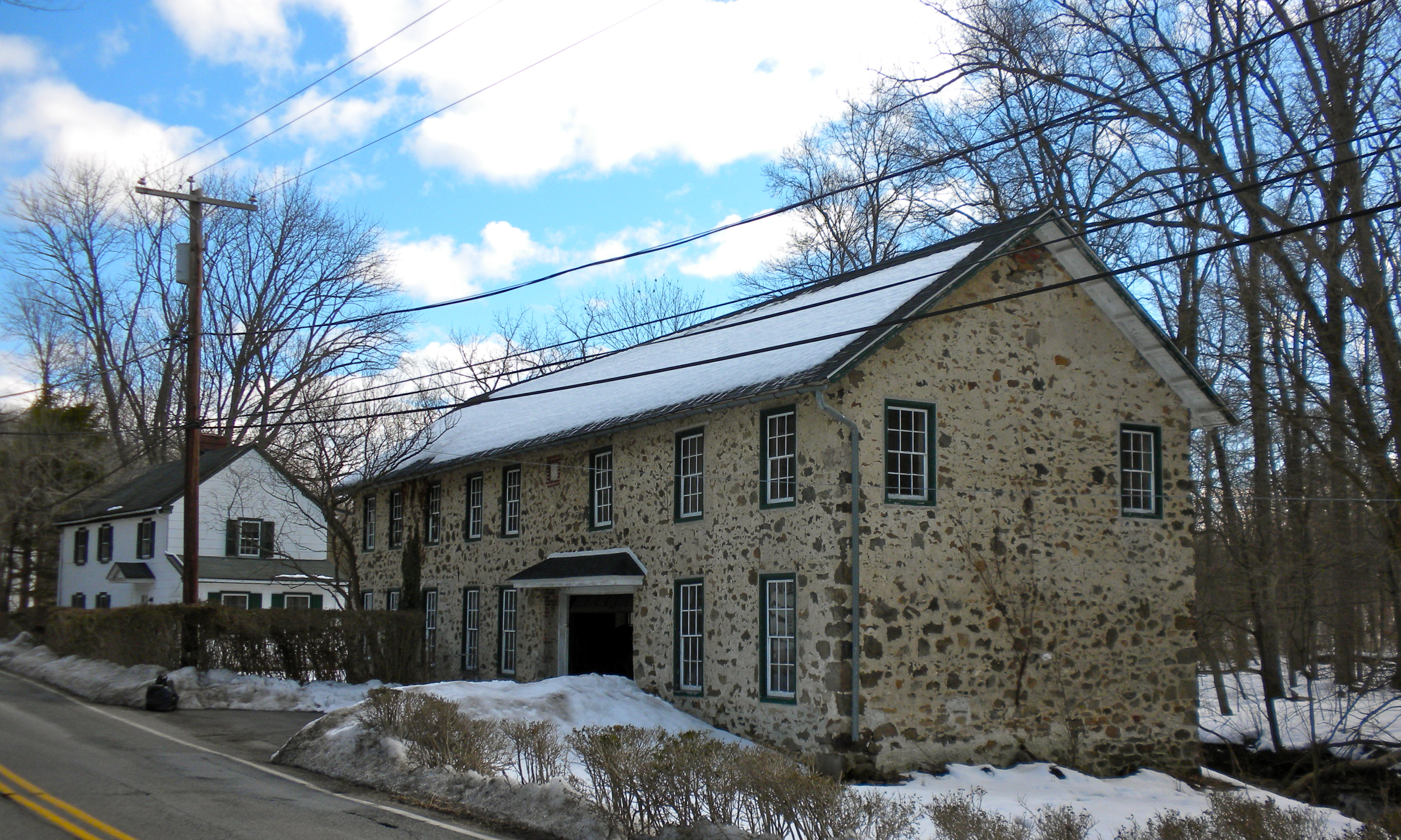 Waterloo Mills (building closest to Creek) in Waterloo Mills Historic District on NRHP since July 21, 1995. Buildings at 815, 840, 855, and 860 Waterloo Road, are in the HD, I believe this is 815. In Easttown Township, Chester County, PA